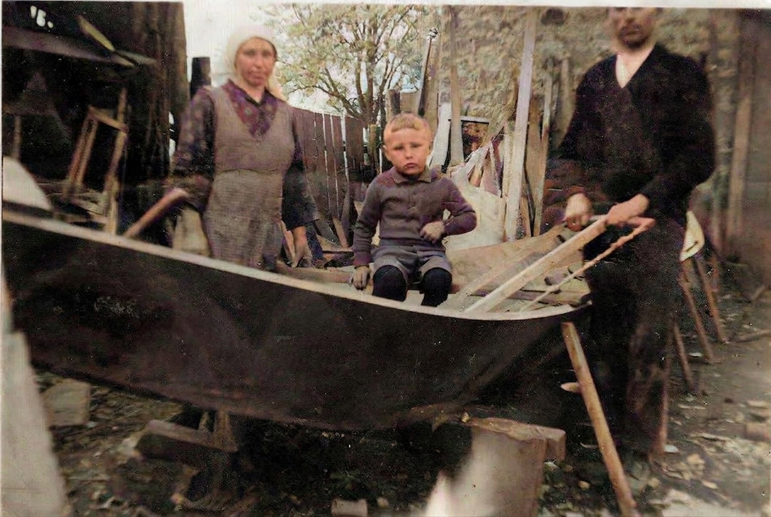 Der Schelchbau war eine jahrhunderte alte Tradition des Holzschiffbaus.Das Bild zeigt die Familie Keidel in Knetzgau beim Bau eines Schelchs im Familienunternehmen